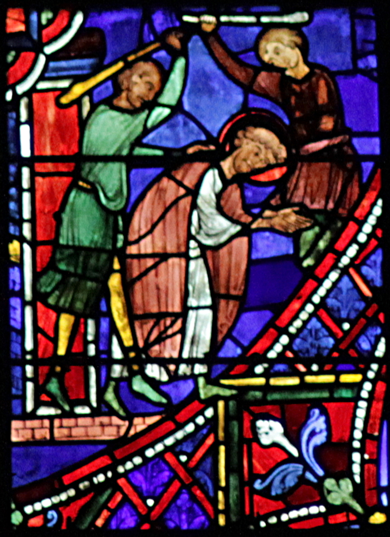 Fragment of File:Chartres 36 -Corrected.jpg - Life of St Apollinaris